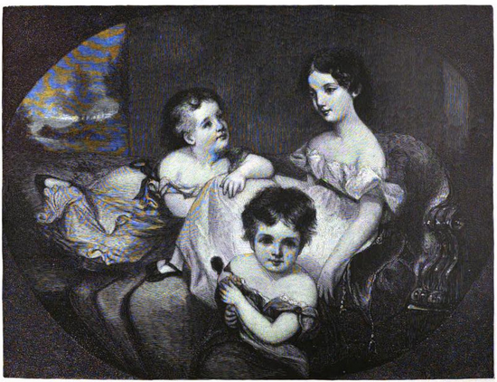 The Sisters engraved for '"St. Nicholas" by Timothy Cole, from the portrait-painting by William Page. The little girl, holding a doll, is Mary Elizabeth Mapes (Mrs. Dodge) at the age of four.